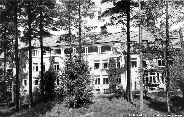 The sanatorium in Adolfsberg, Örebro, Sweden